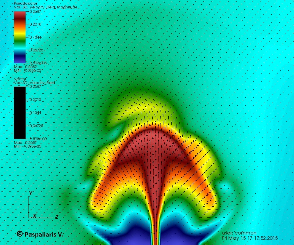 2-D velocity field visualisation of mq's SS-433 jet's fluid, using data made with PLUTO hydrocode. The velocity of plasma near the jet central-axis is ~0.27c. (c: light velocity). Visualisations like this may help people to observe phenomenons that are not observable with telescopes cause of their distance from the earth.